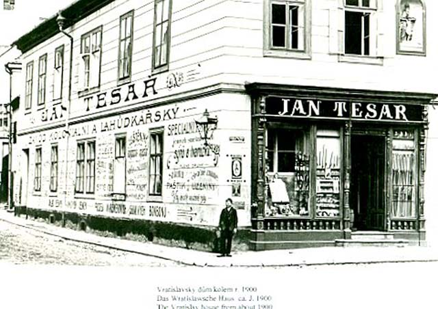 The Vratislav's House at 1900